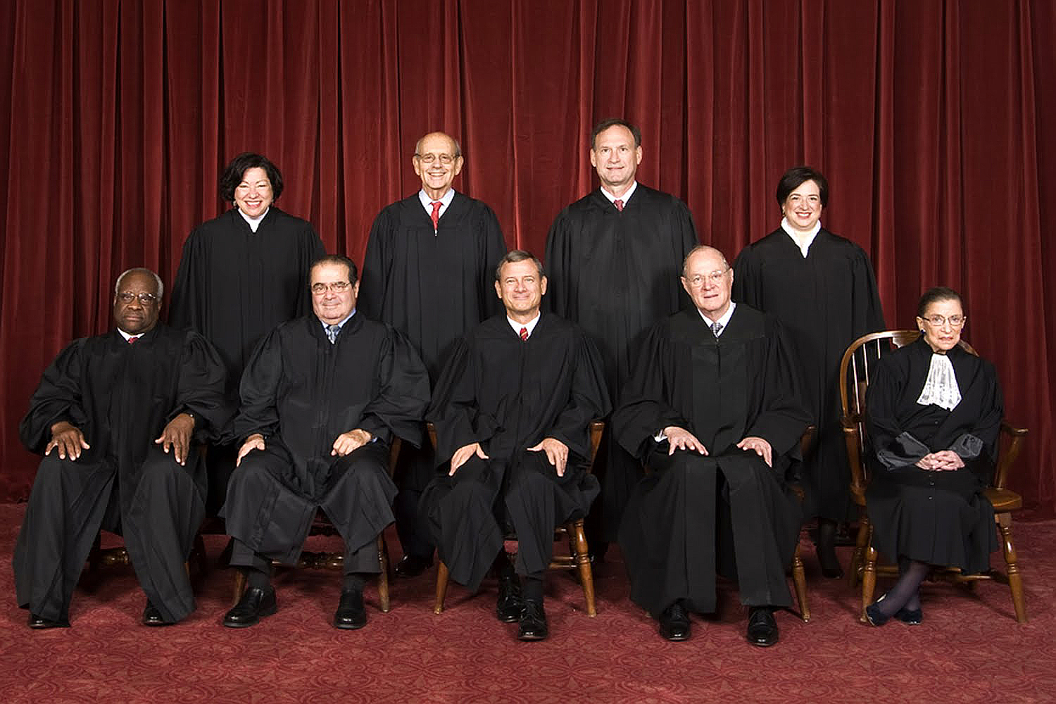 The United States Supreme Court, the highest court in the United States, in 2010. Top row (left to right): Associate Justice Sonia Sotomayor, Associate Justice Stephen G. Breyer, Associate Justice Samuel A. Alito, and Associate Justice Elena Kagan. Bottom row (left to right): Associate Justice Clarence Thomas, Associate Justice Antonin Scalia, Chief Justice John G. Roberts, Associate Justice Anthony Kennedy, and Associate Justice Ruth Bader Ginsburg.